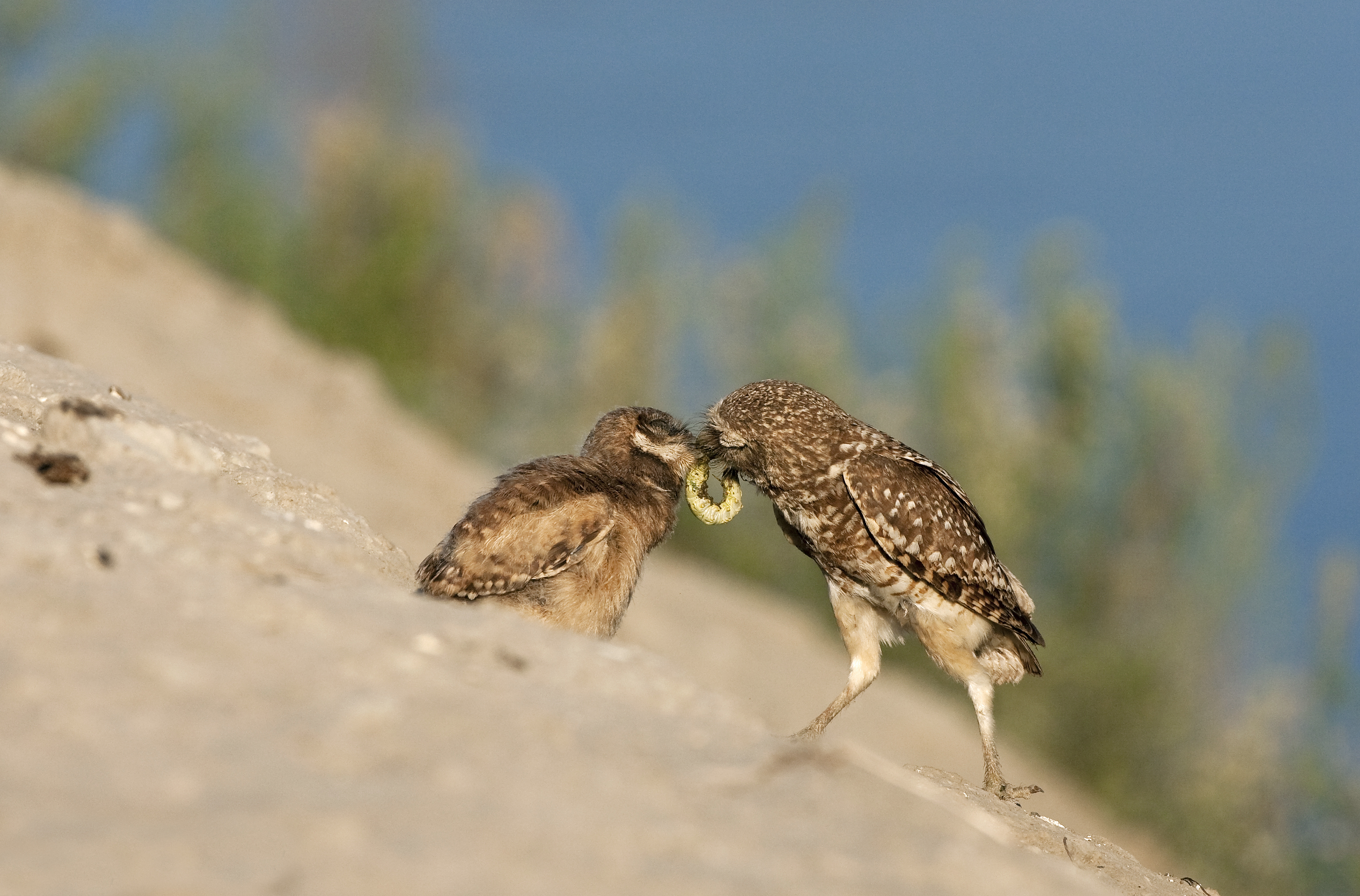 Our goal this season was to locate and monitor a breeding pair of Burrowing Owls. Anne and I were fortunate to locate four burrows near Fresno all active with pairs. It took several trips and many days monitoring behavior in an effort to be there at the right time when the owlets leave the burrow. I believe we missed the actual day by a week, but two of the owlets were easily identified as the last hatched. I am posting just a few of so many good images taken over the past two months and when time permits I am going to put together a slideshow for easy viewing.